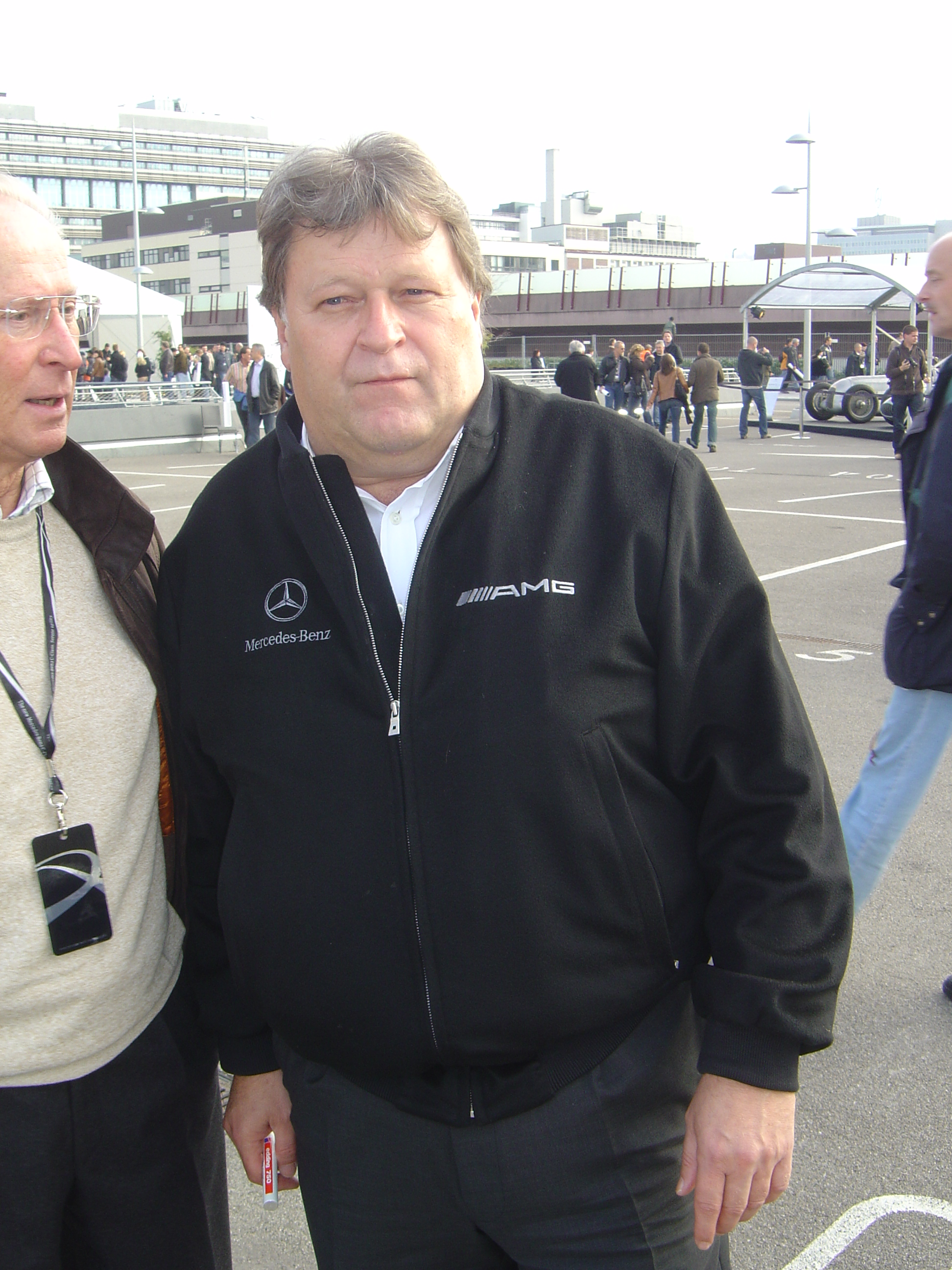 Norbert Haug: the photo was taken during 2007's "Stars & Cars" event in Stuttgart-Untertürkheim